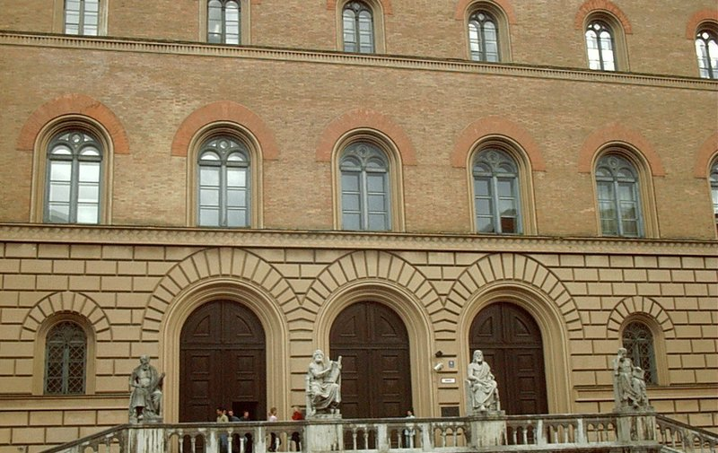 Entrace of the Bayerische Staatsbibliothek in Munich